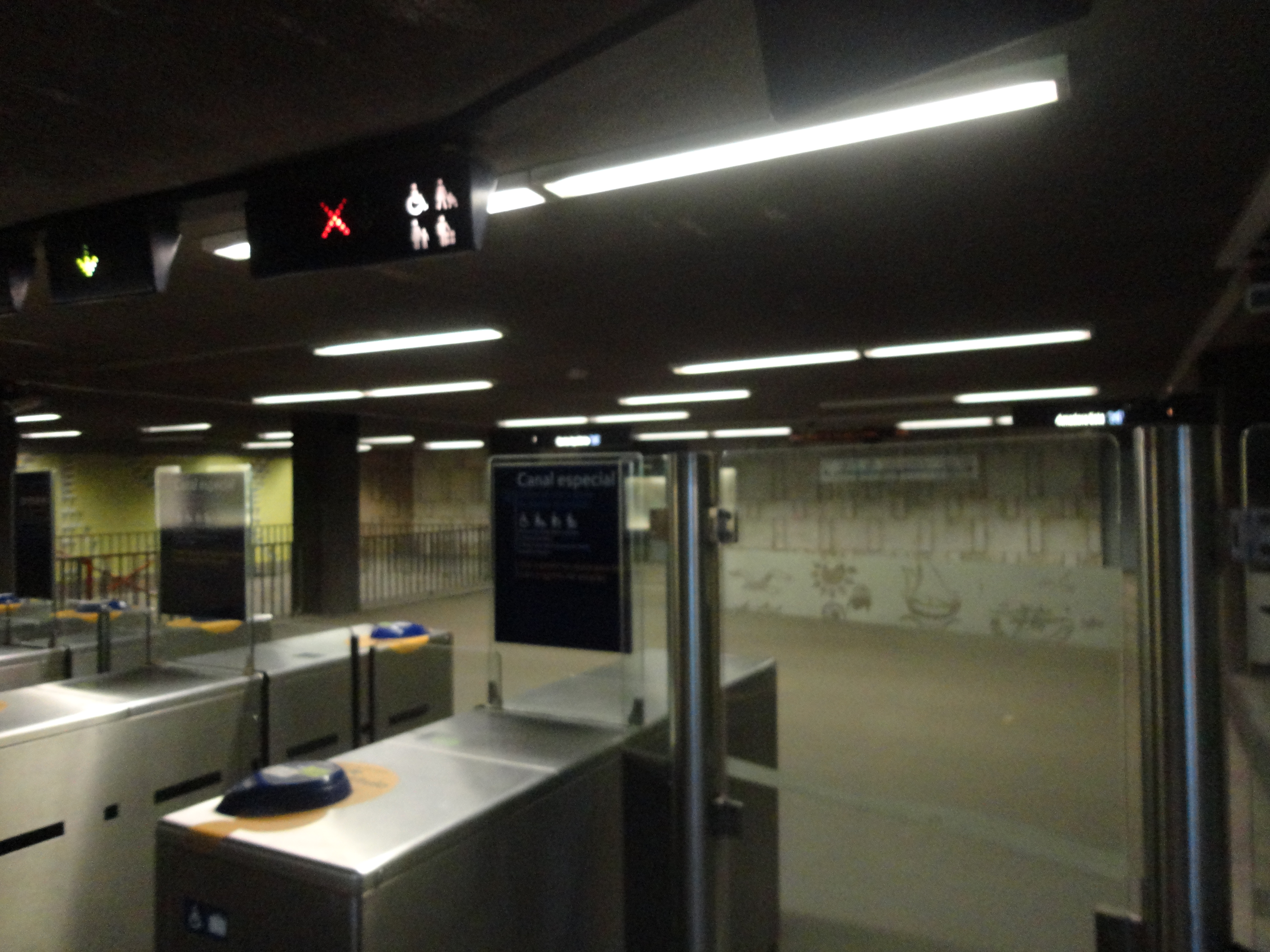 Ticket barriers at the Praça de Espanha metro station (Lisbon).